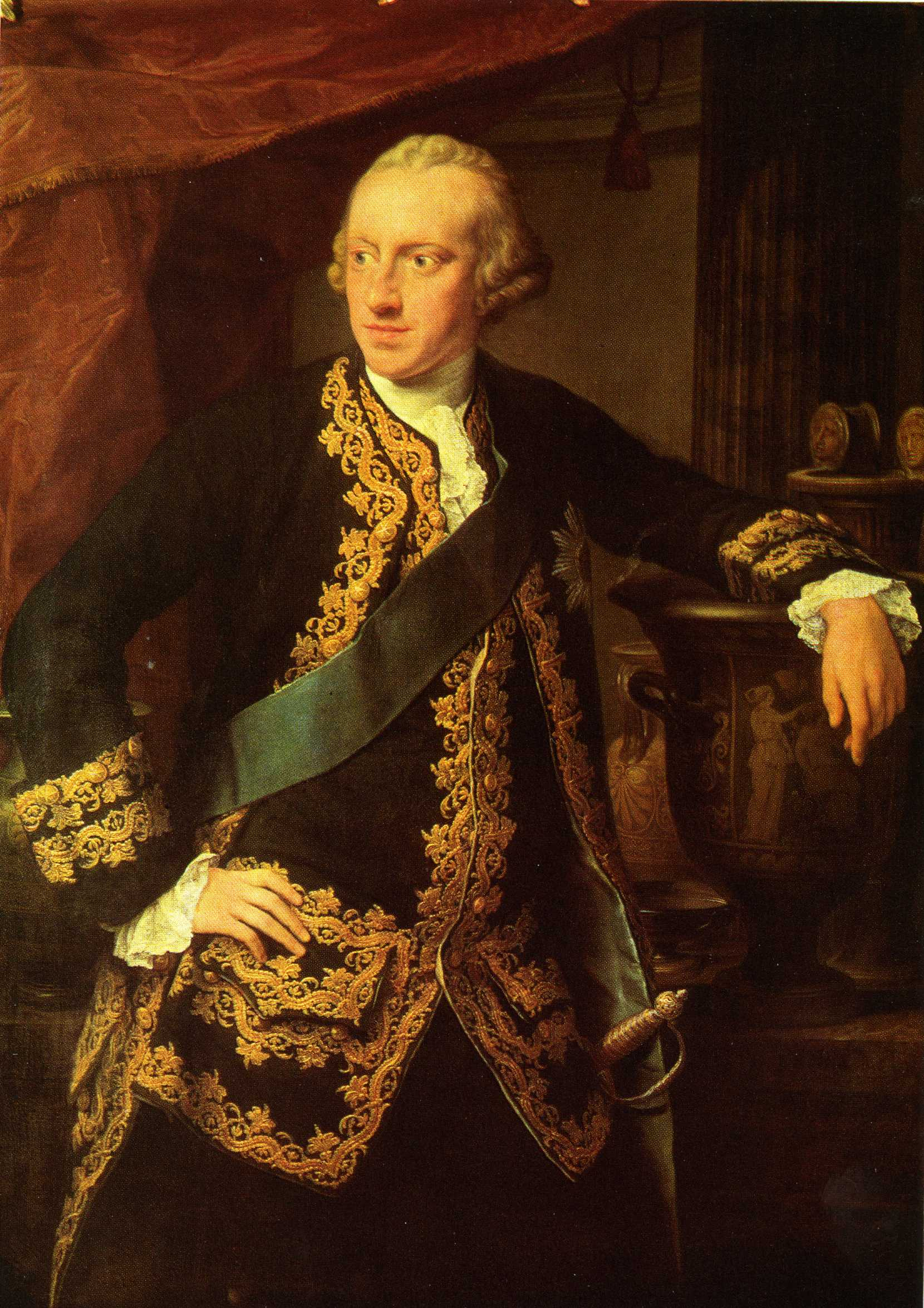 Portrait of Charles William Ferdinand, Duke of Brunswick-Wolfenbüttel (1735-1806)